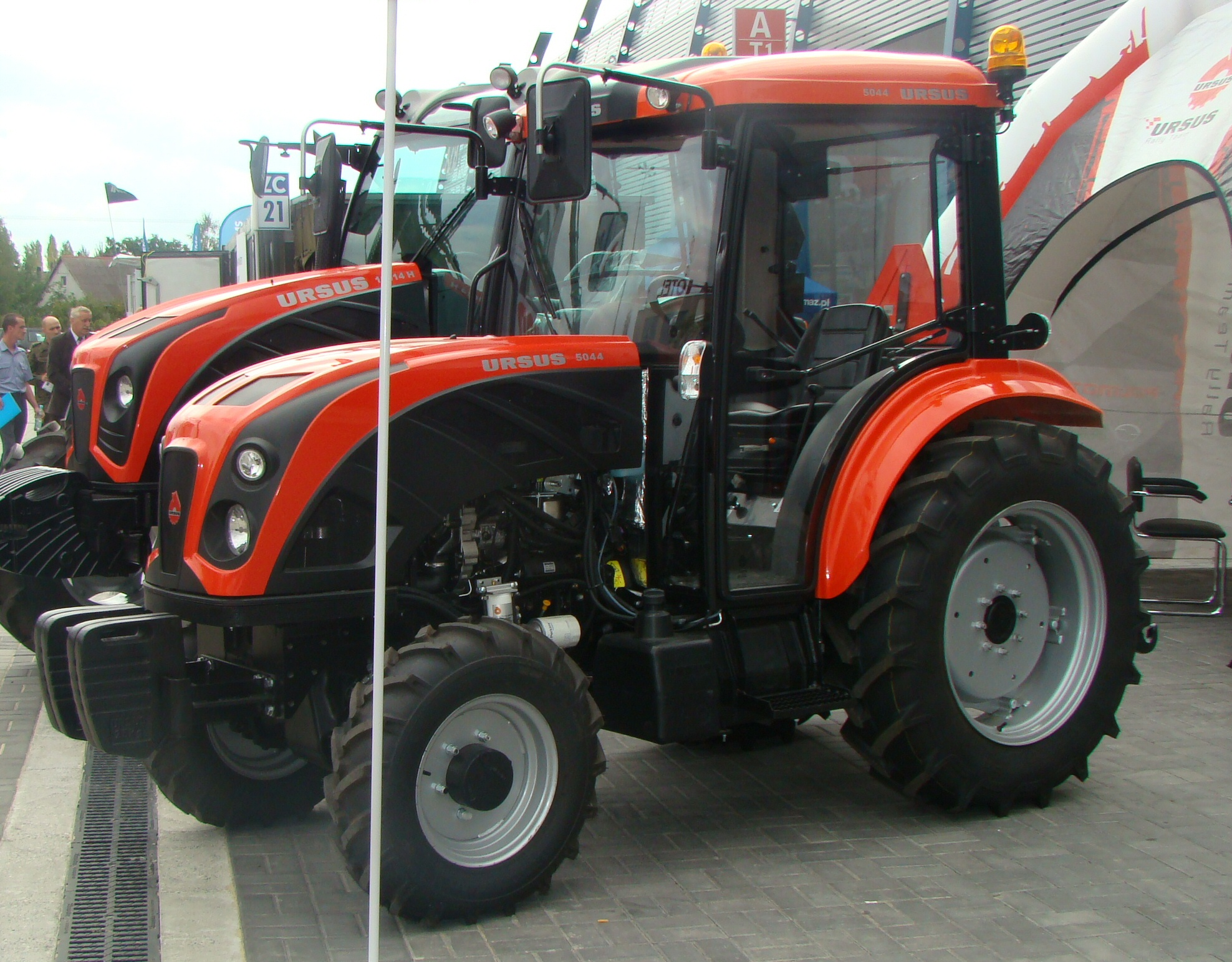 Ursus 5044 tractor in Kielce, Poland. MSPO 2013.